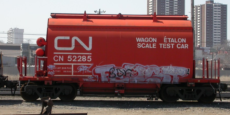 Scale test car CN 52285 at Stuart Street Yard, Hamilton, Ontario, April 16, 2005. Photo copyright 2005, James Yolkowski (User:JYolkowski).